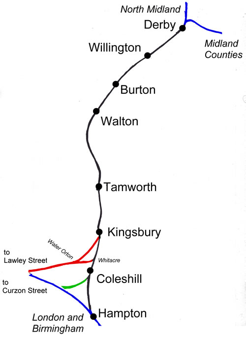 Skjetch map of the Birmingham and Derby Junction Railway around 1840